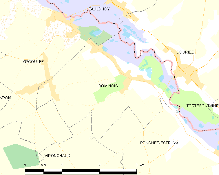 Map of French municipality Dominois